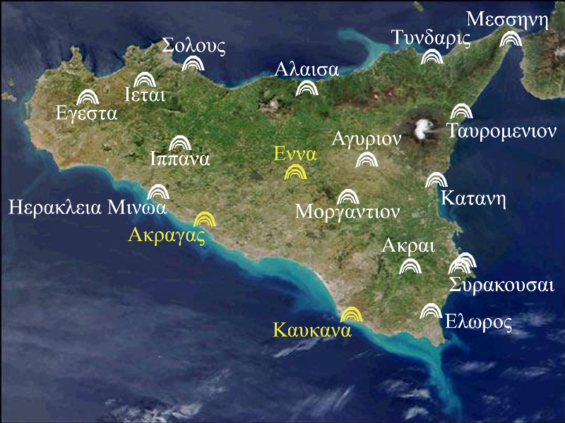 Greek theatres in Sicily